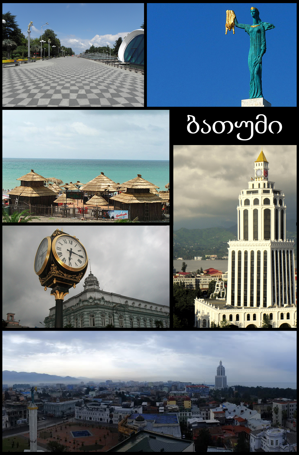 Montage of Batumi.